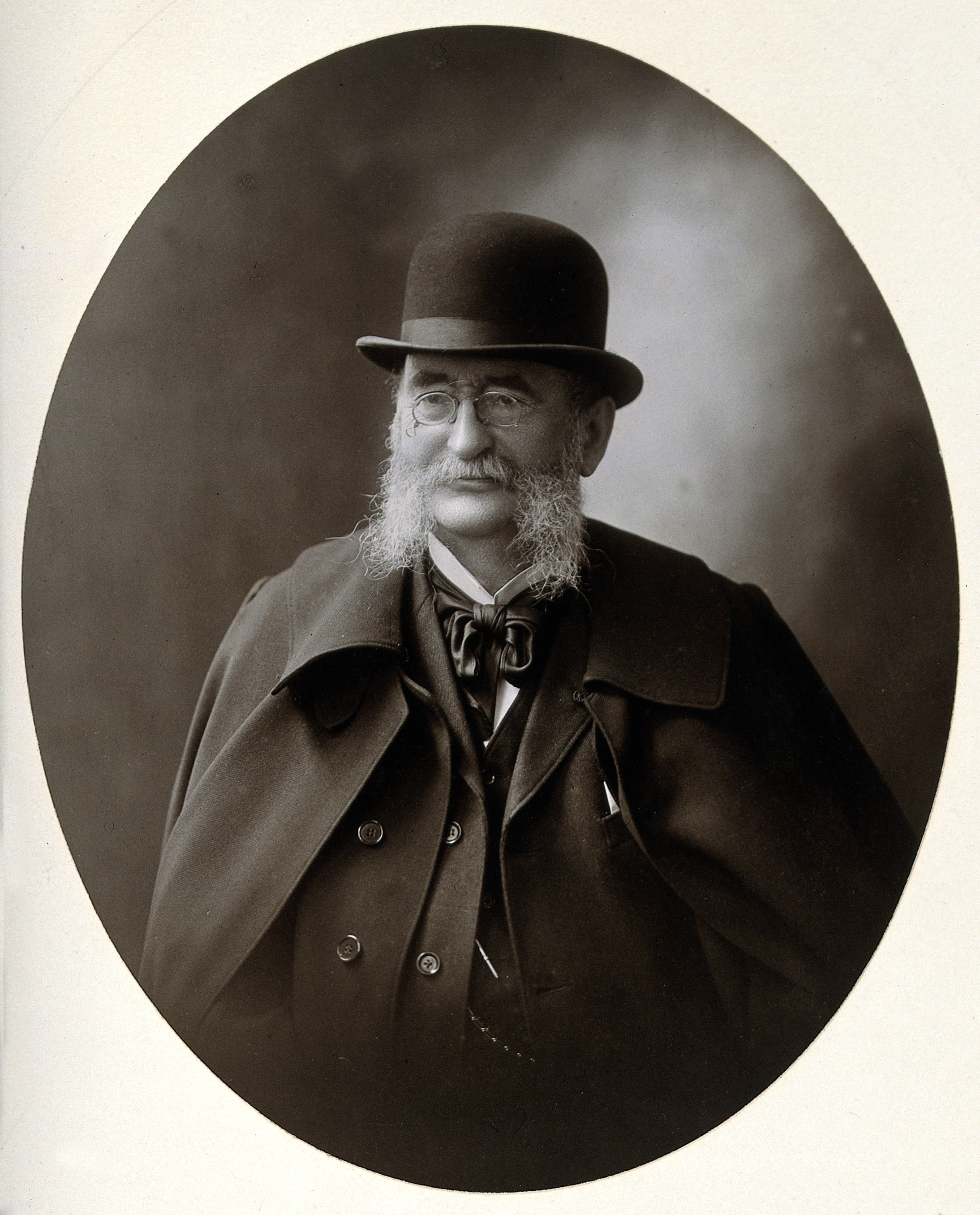 Louis Hubert Farabeuf. Photograph by Henri Manuel, Paris. Iconographic Collections Keywords: portrait photographs